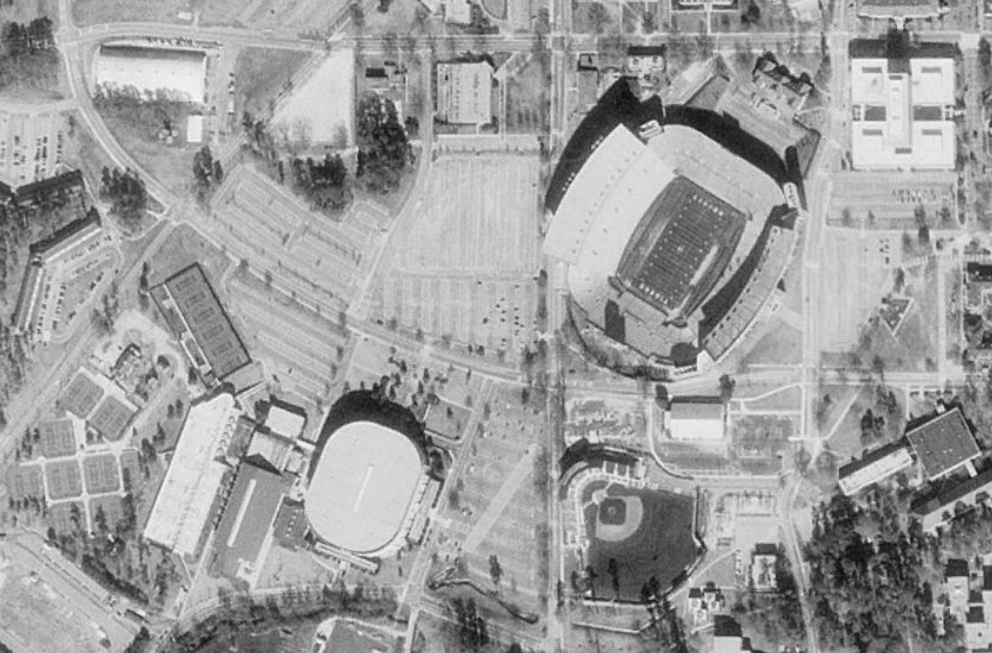 Jordan-Hare stadium satellite view, nasa world wind 1.3.5